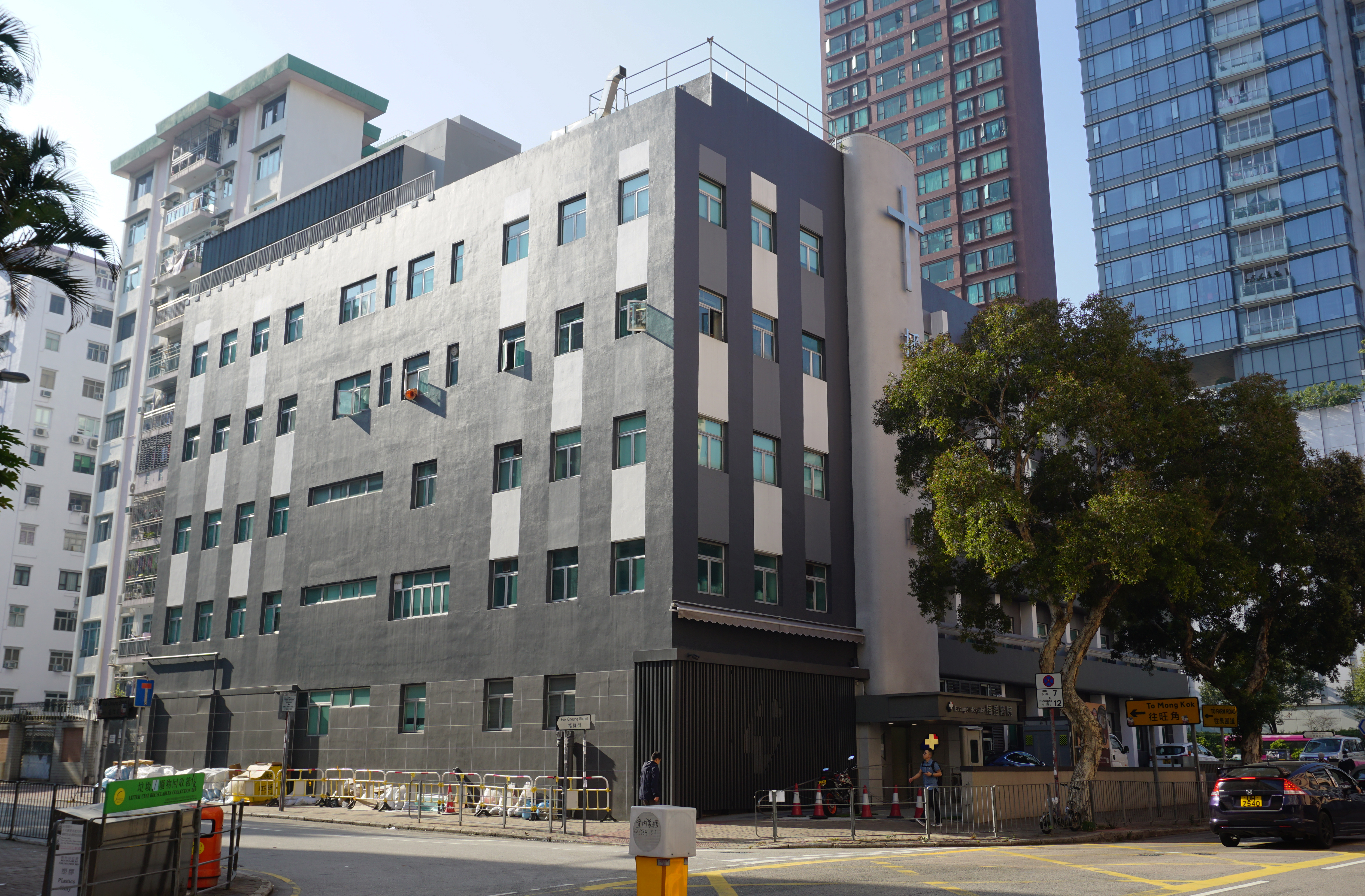 Evangel Hospital in Ma Tau Wai, Hong Kong.